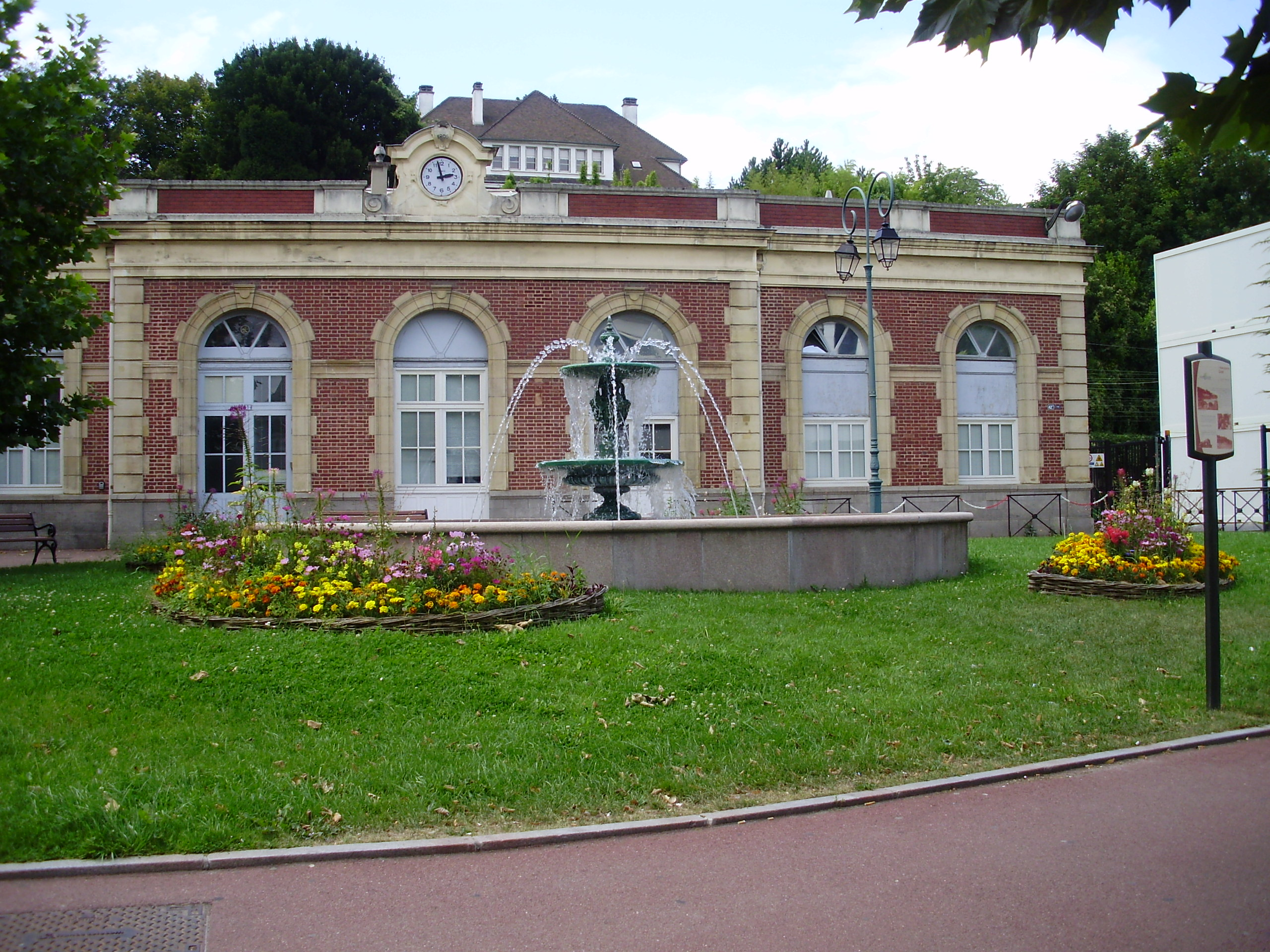 Old station of Saint-Cloud, Hauts-de-Seine, France, at 130 m south of the station used today (2010)